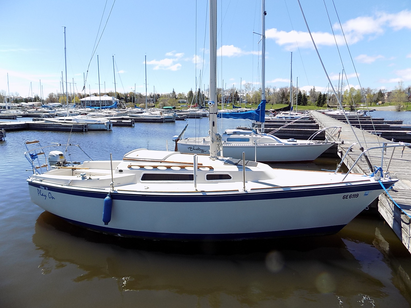 An O'Day 23-2 sailboat named Play On